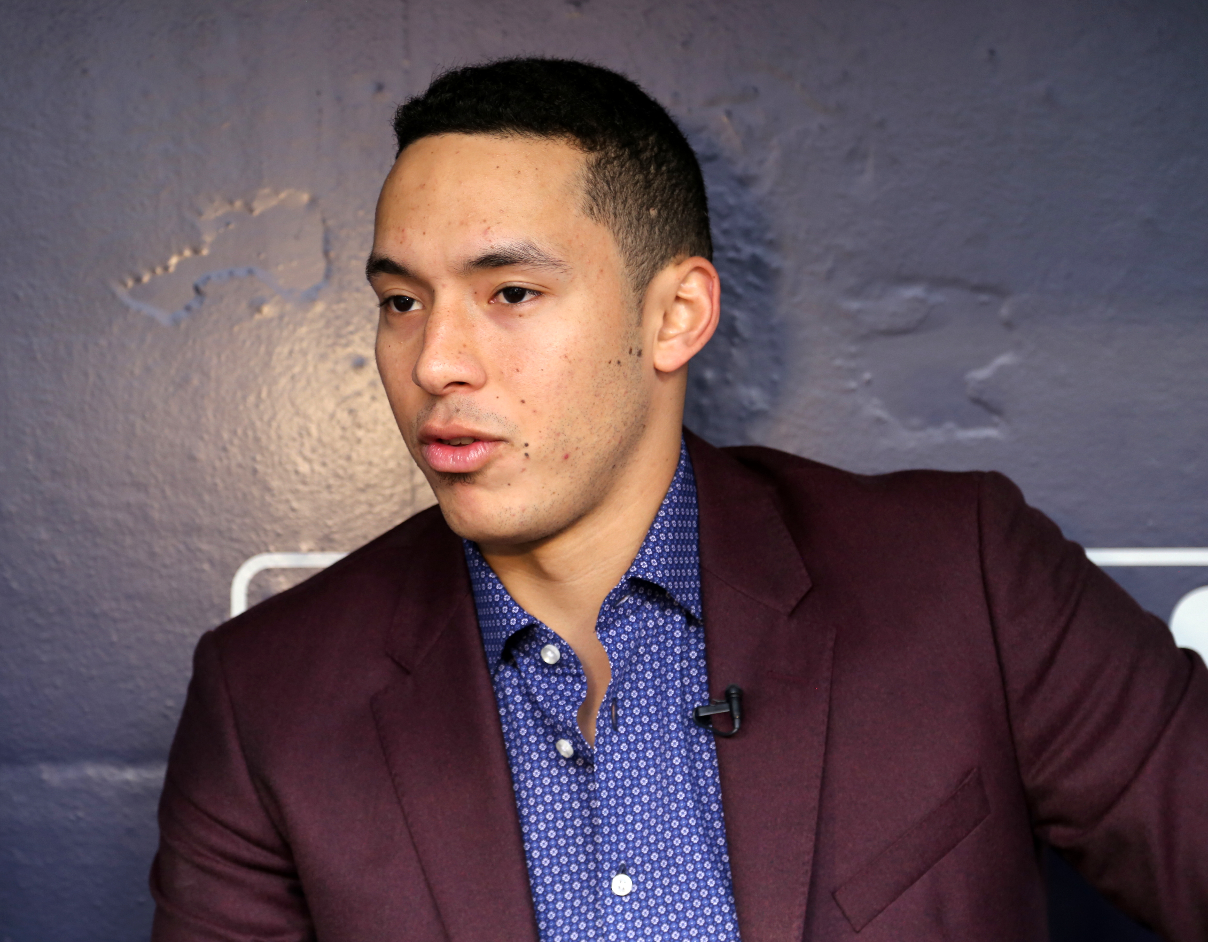 Carlos Correa chats with Frank Thomas before Game 4 of the 2015 #WorldSeries.